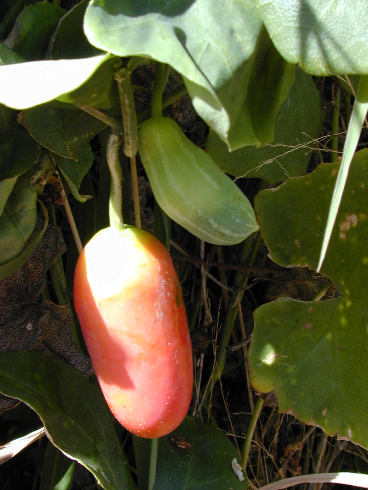 Coccinia grandis (fruit). Location: Maui, Kahului